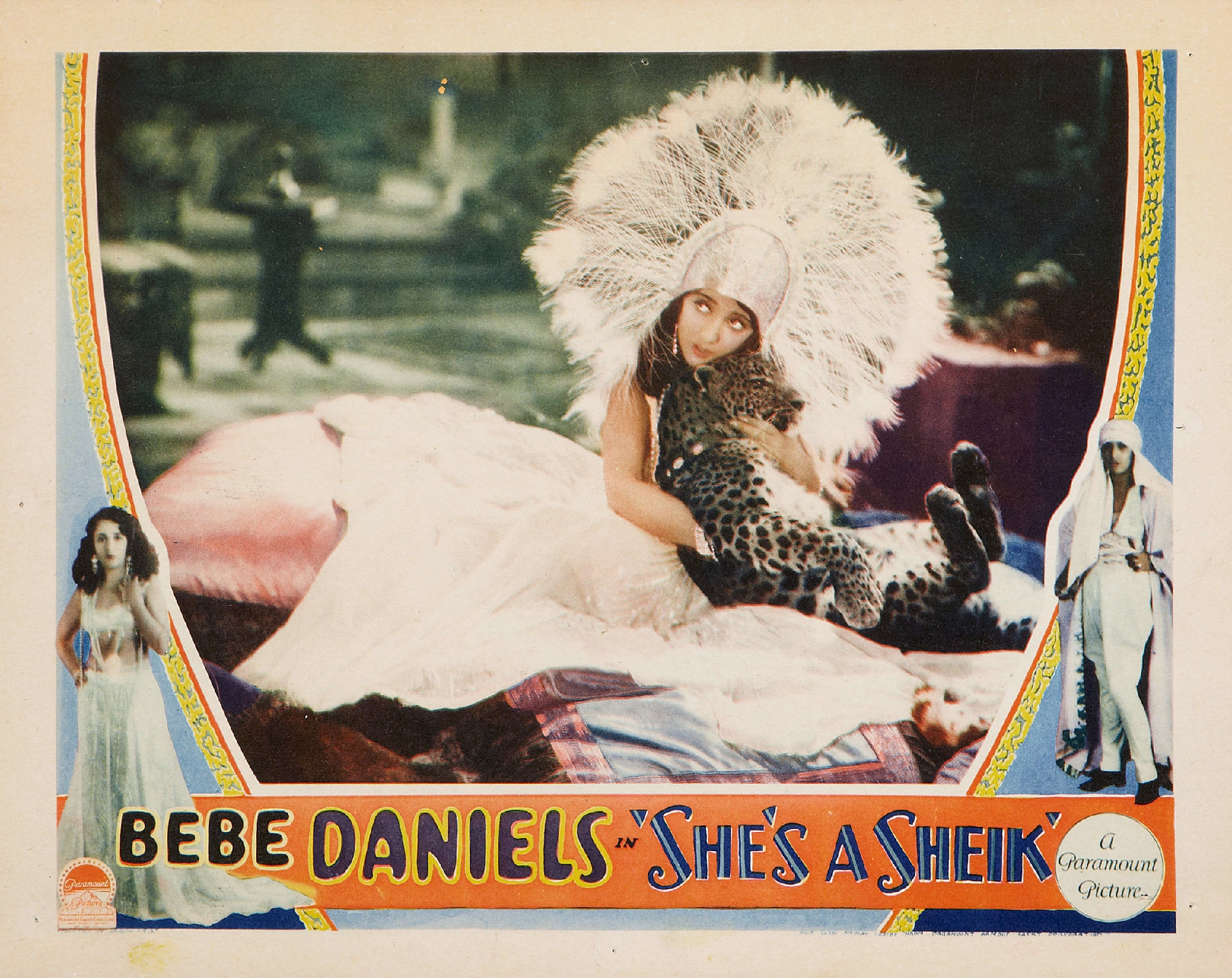 Lobby card for the American comedy film She's a Sheik (1927). There are no copyright marks on the item. At lower left is Country of origin USA. At lower right is This lobby display leased from Paramount Famous Players Lasky Corporation.